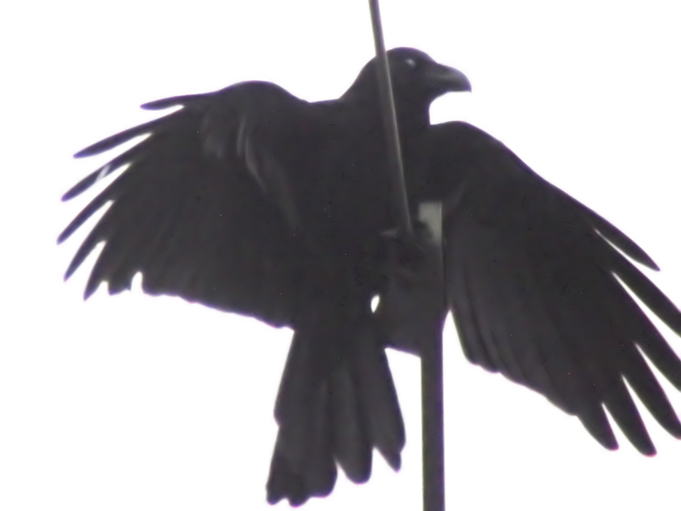 Saw near my home.